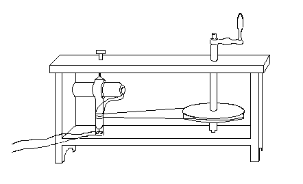 Joule's first experiment on mechanical equivalent of heat